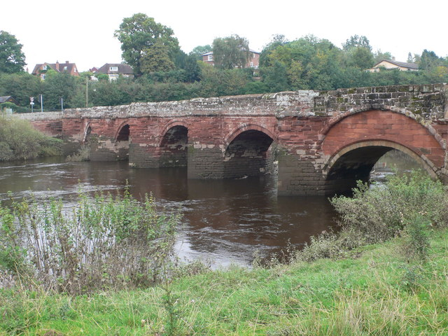 Holt Bridge